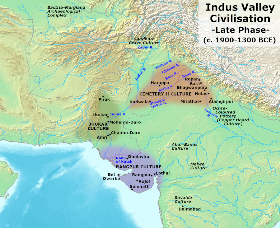 Sources: McIntosh, Jane (2008). The Ancient Indus Valley: New Perspectives. ISBN 978-1-57607-907-2. Background from Made with GIMP